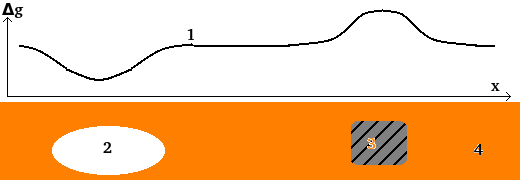 Schematic representation of the change in the gravity field over different geological formations.